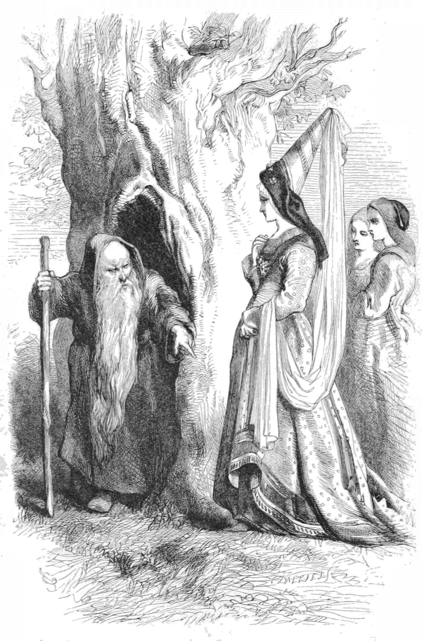 Illustration for a fairy tale by Madame d'Aulnoy